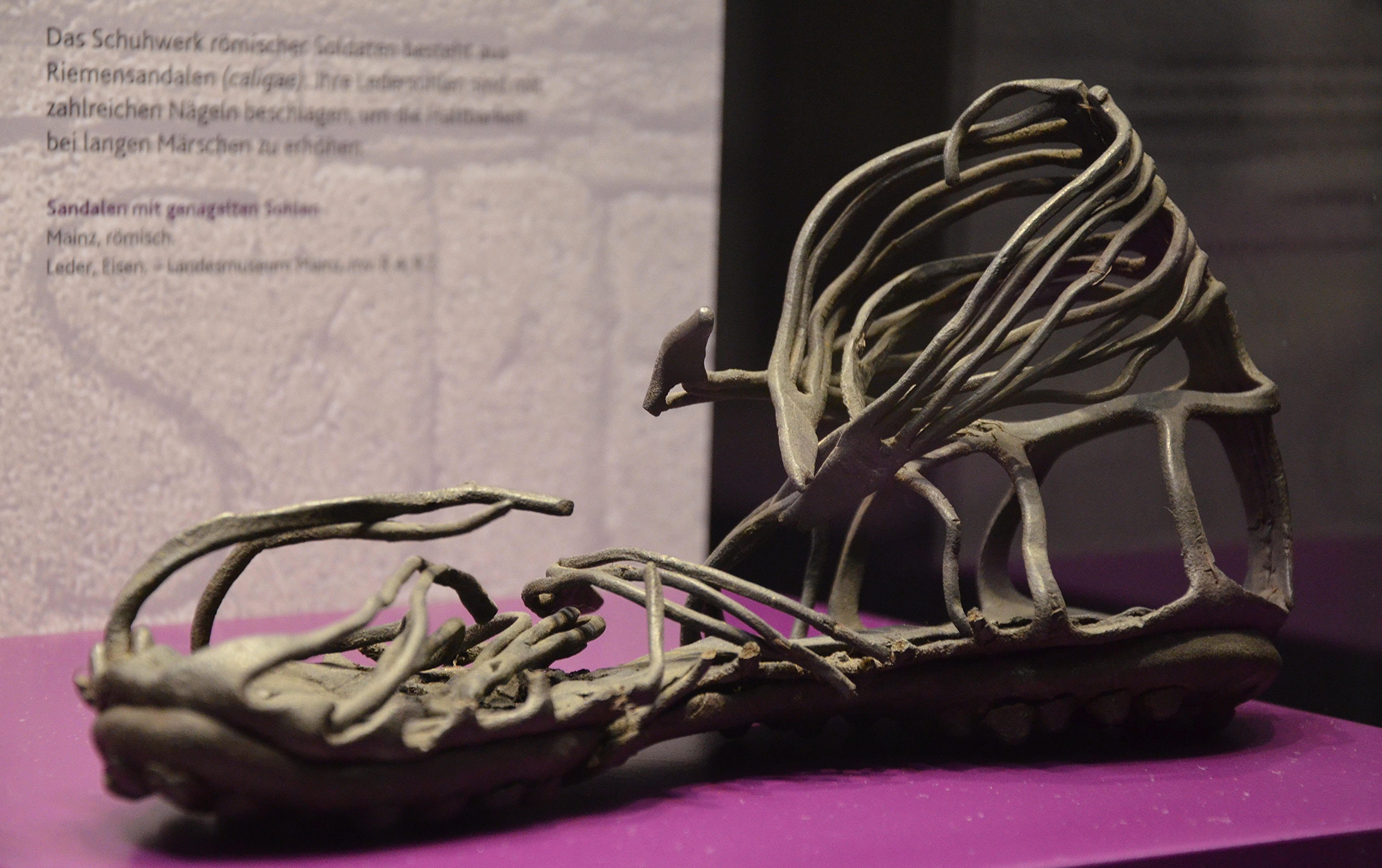 Caliga, Roman soldier's sandal from the 1st Century AD, Landesmuseum, Mainz